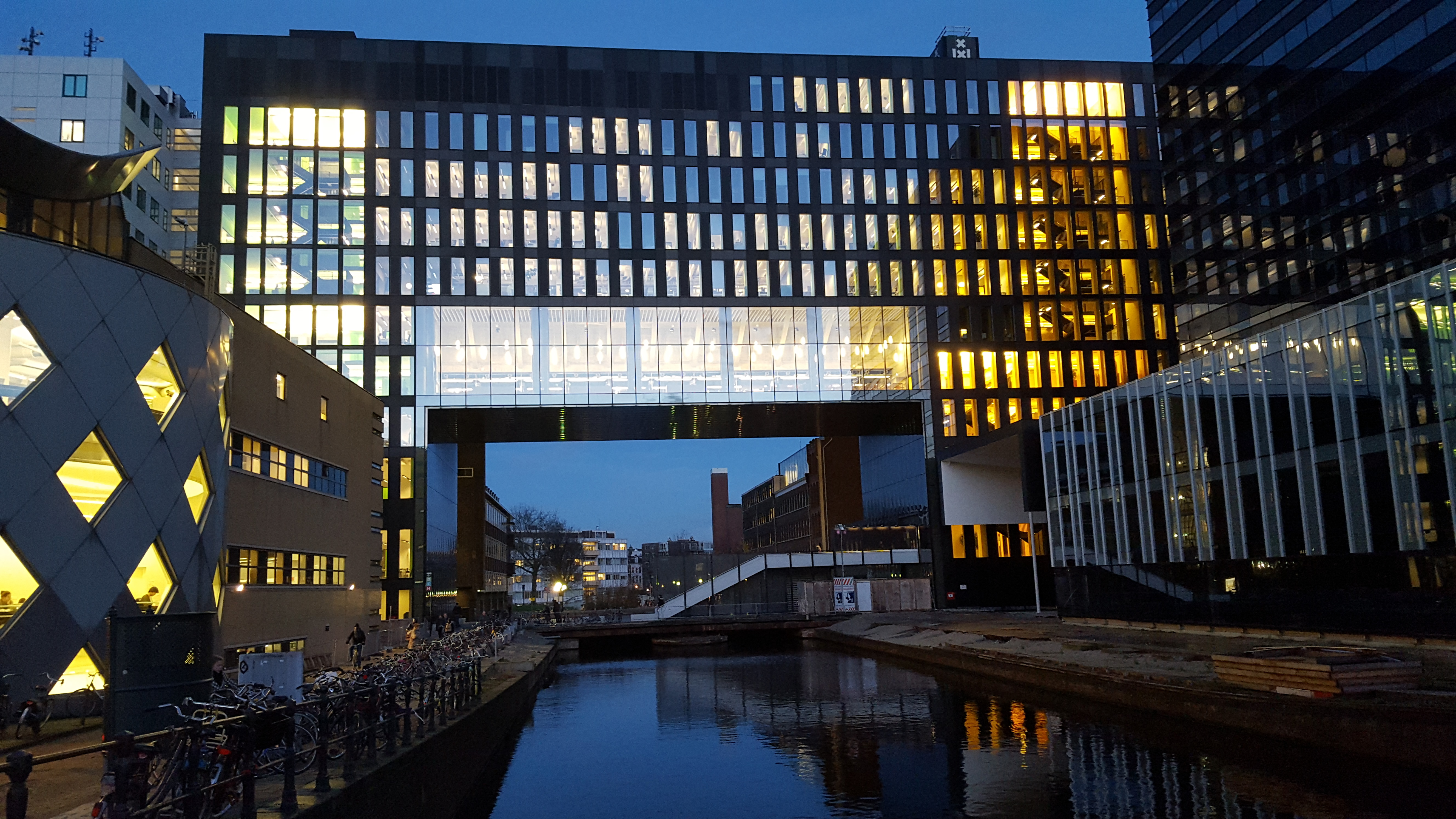 University of Amsterdam at Roeterseiland, Amsterdam, the Netherlands